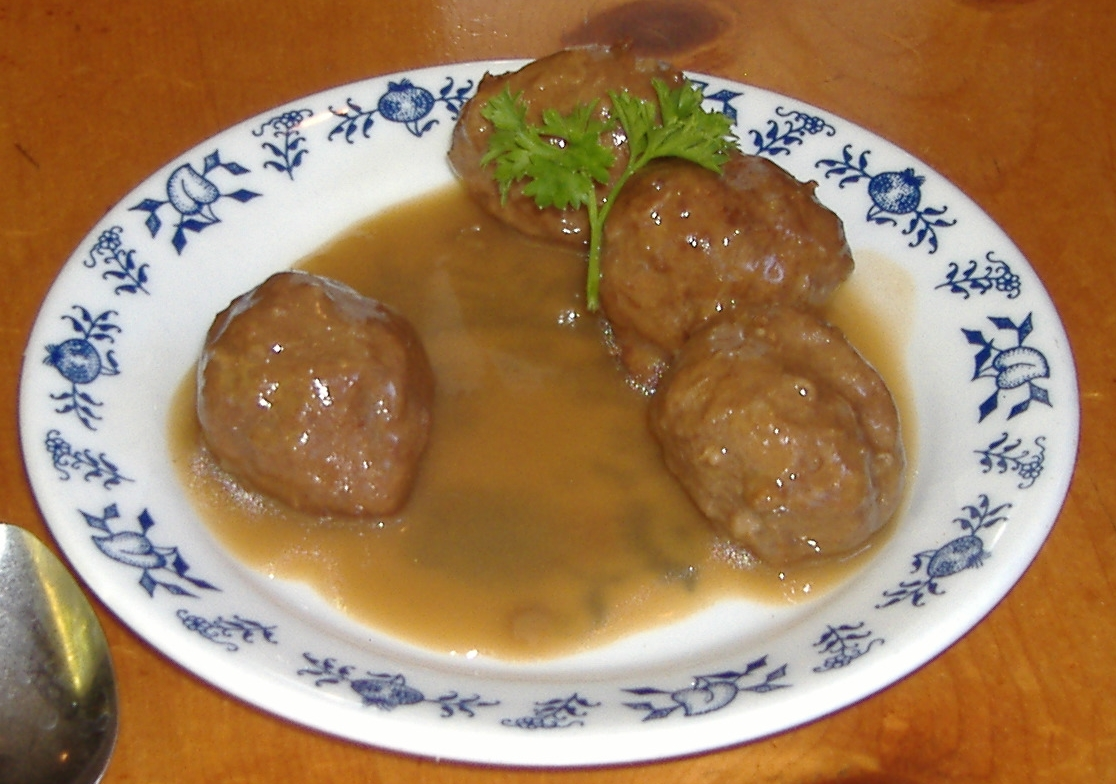 Photo of Swedish meatballs, from Al Johnson's Restaurant in Sister Bay, Wisc., United States.